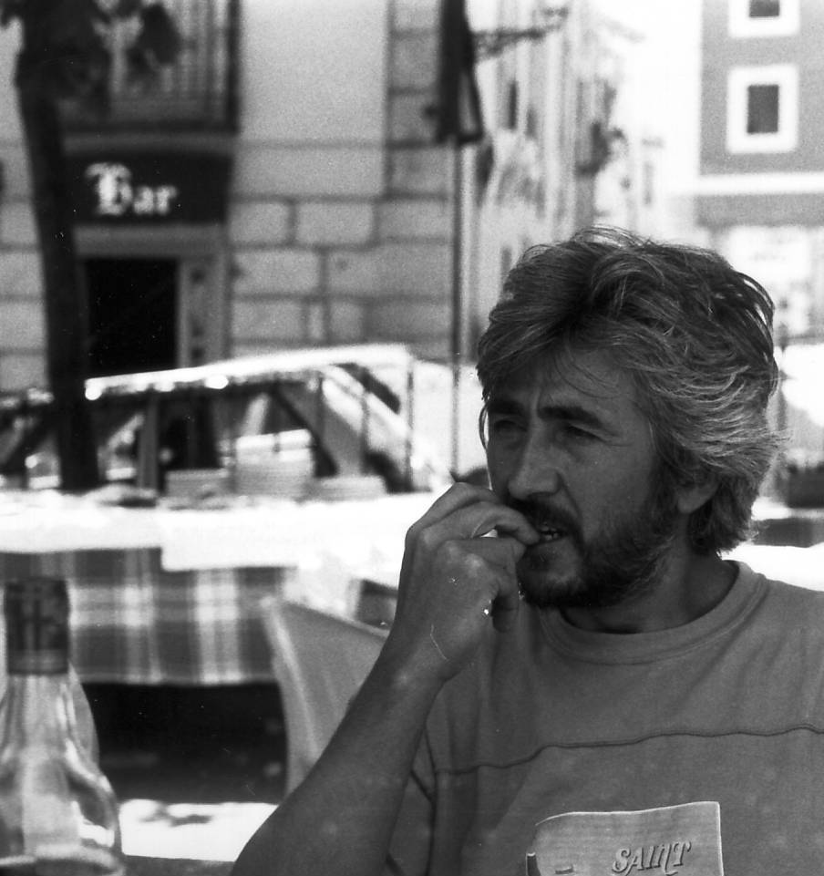 Fernando Luna, composer and Spanish writer, on a terrace in Madrid. Year 2007.